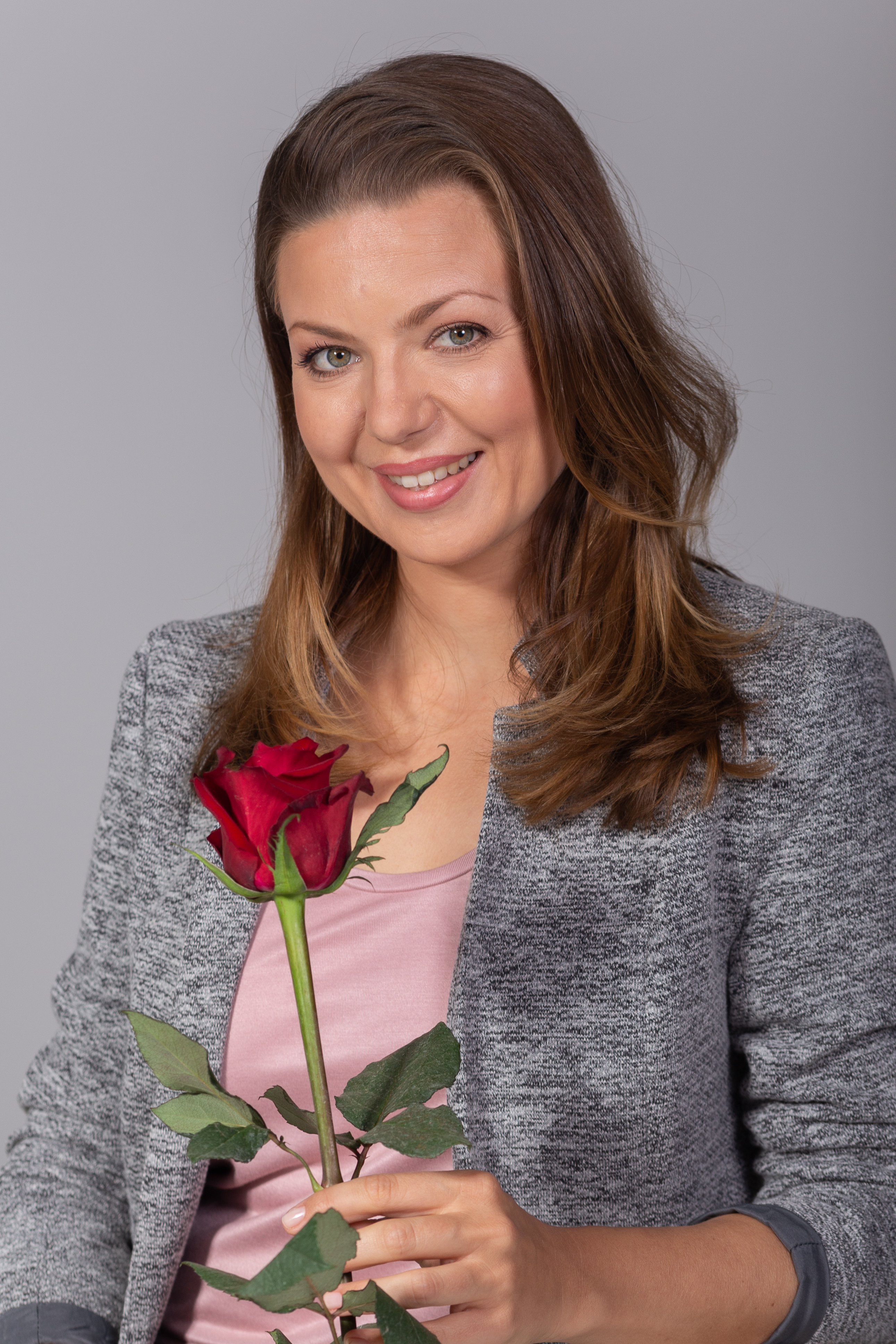 TV, ARD, cast "Rote Rosen"; Katrin Ingendoh